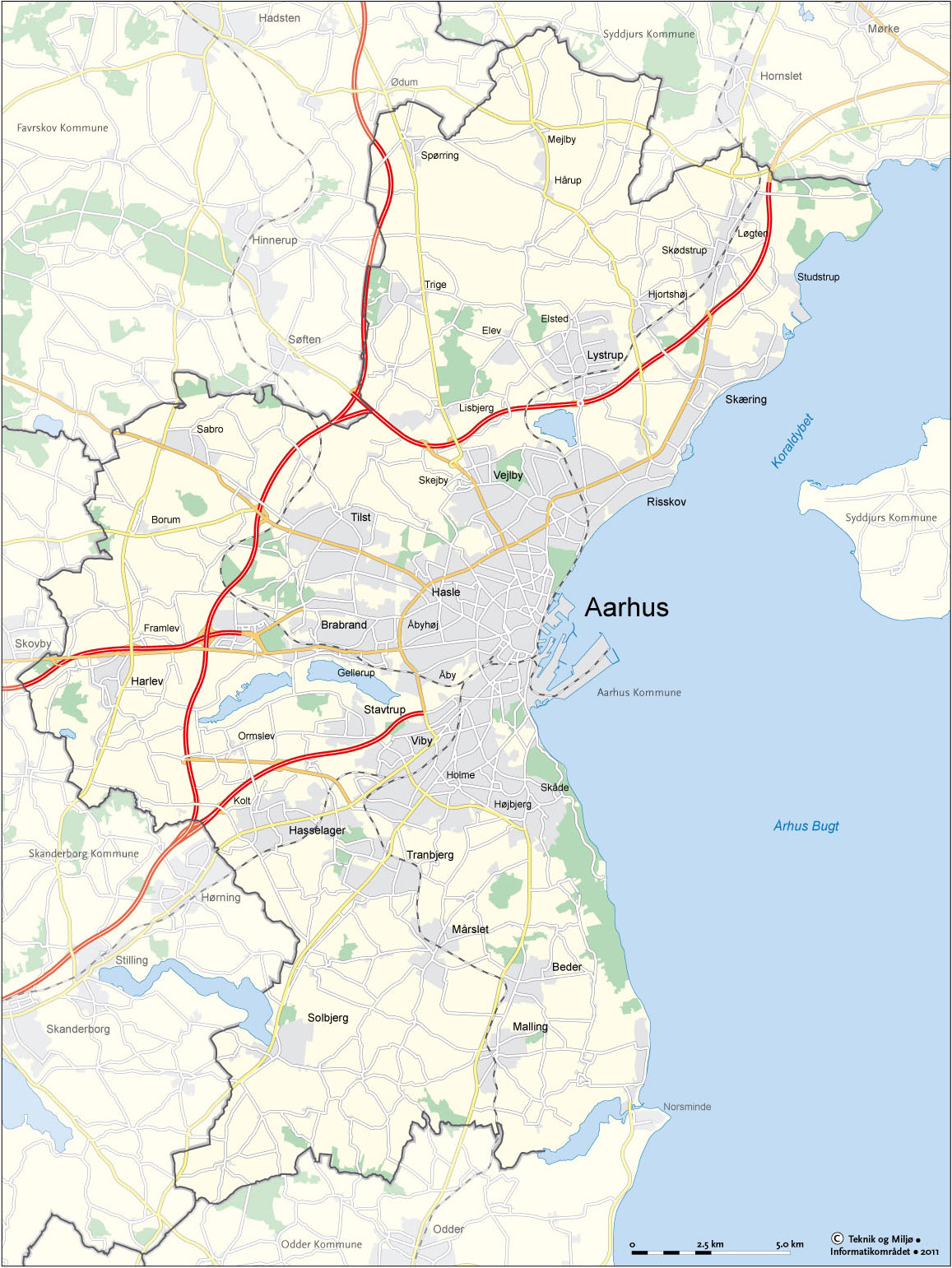 Map of Aarhus kommune